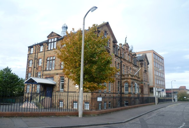 Trinity Academy from Craighall Road